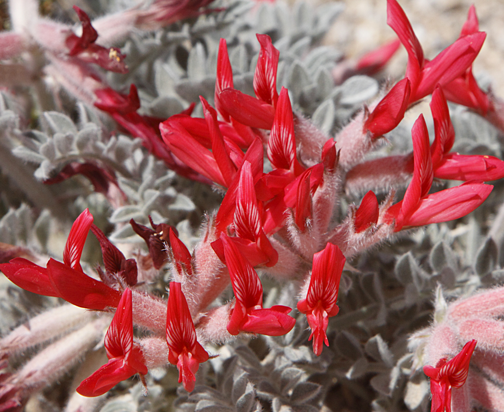 Scarlet Milkvetch, sometimes called Scarlet Locoweed (Astragalus coccineus), is a legume, native to the American deserts. These flowers really are intensely colored.